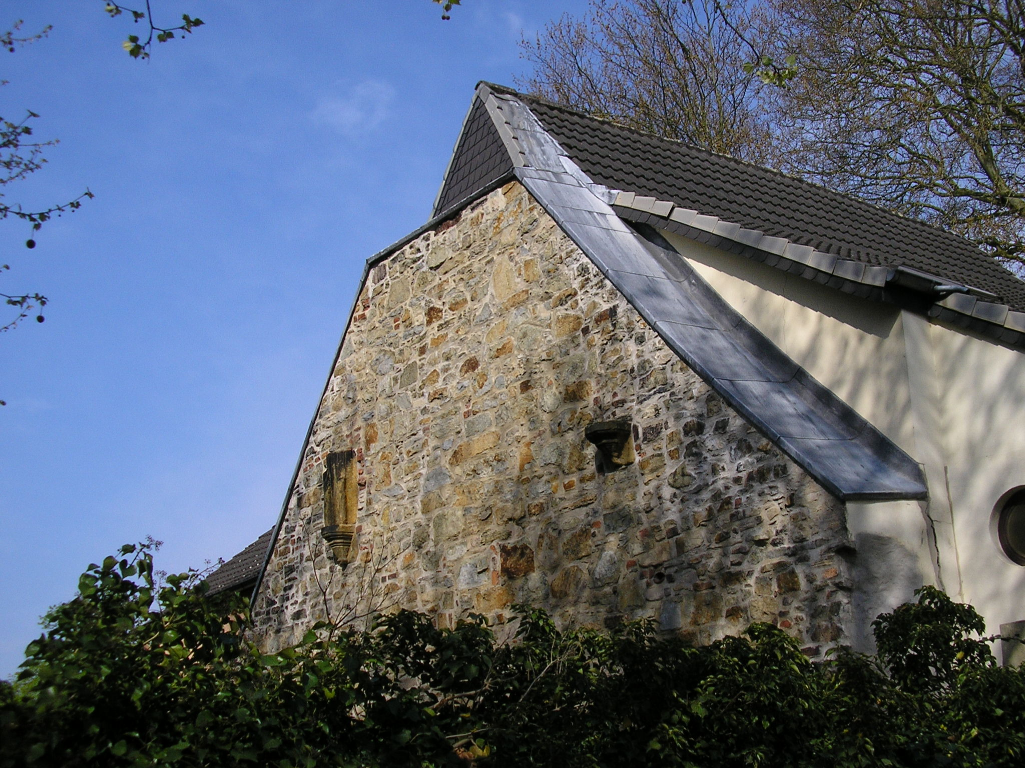 Ruin of chapel in Herford, District of Herford, North Rhine-Westphalia, Germany.